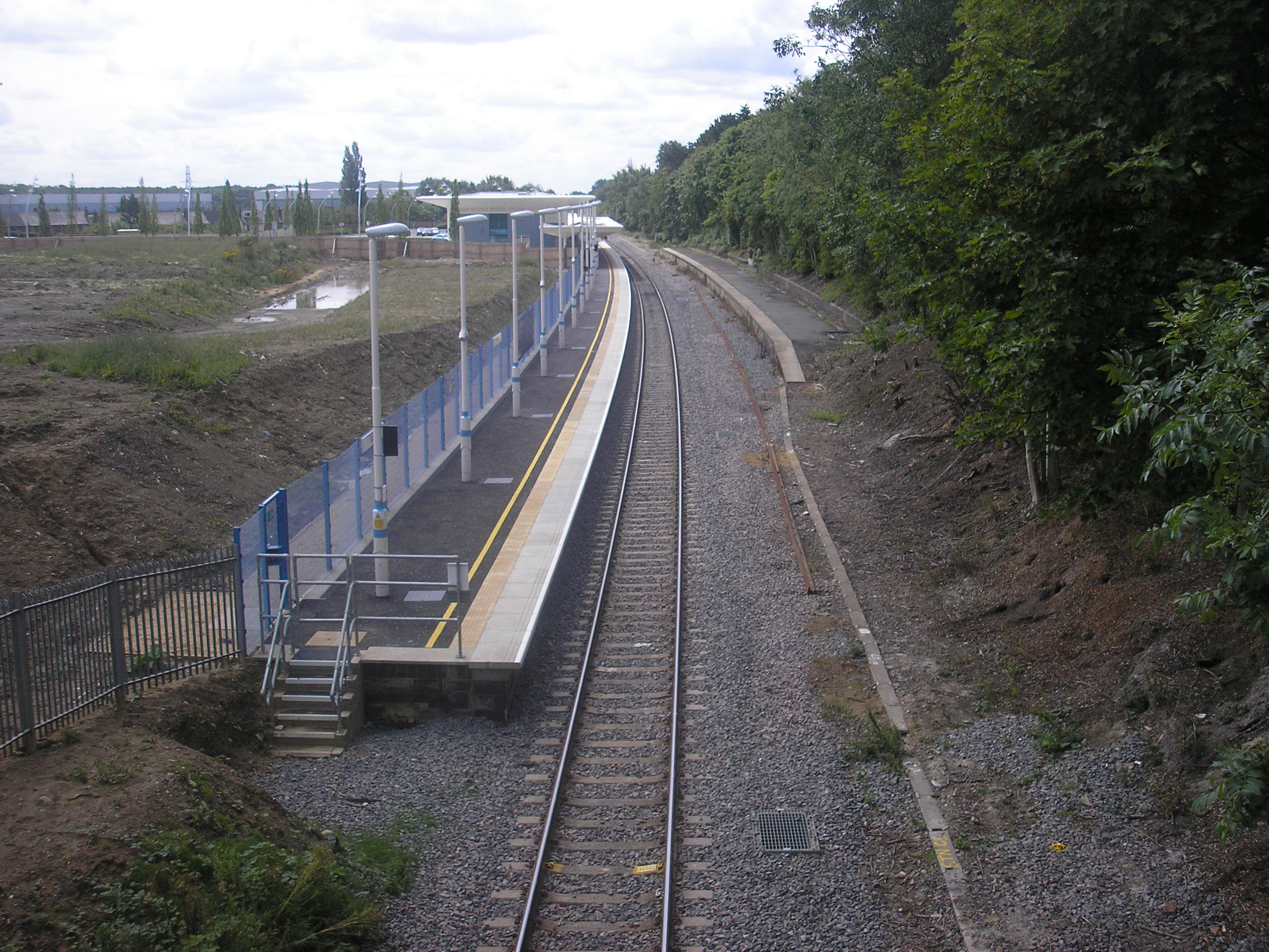 A view looking south towards Corby railway station.